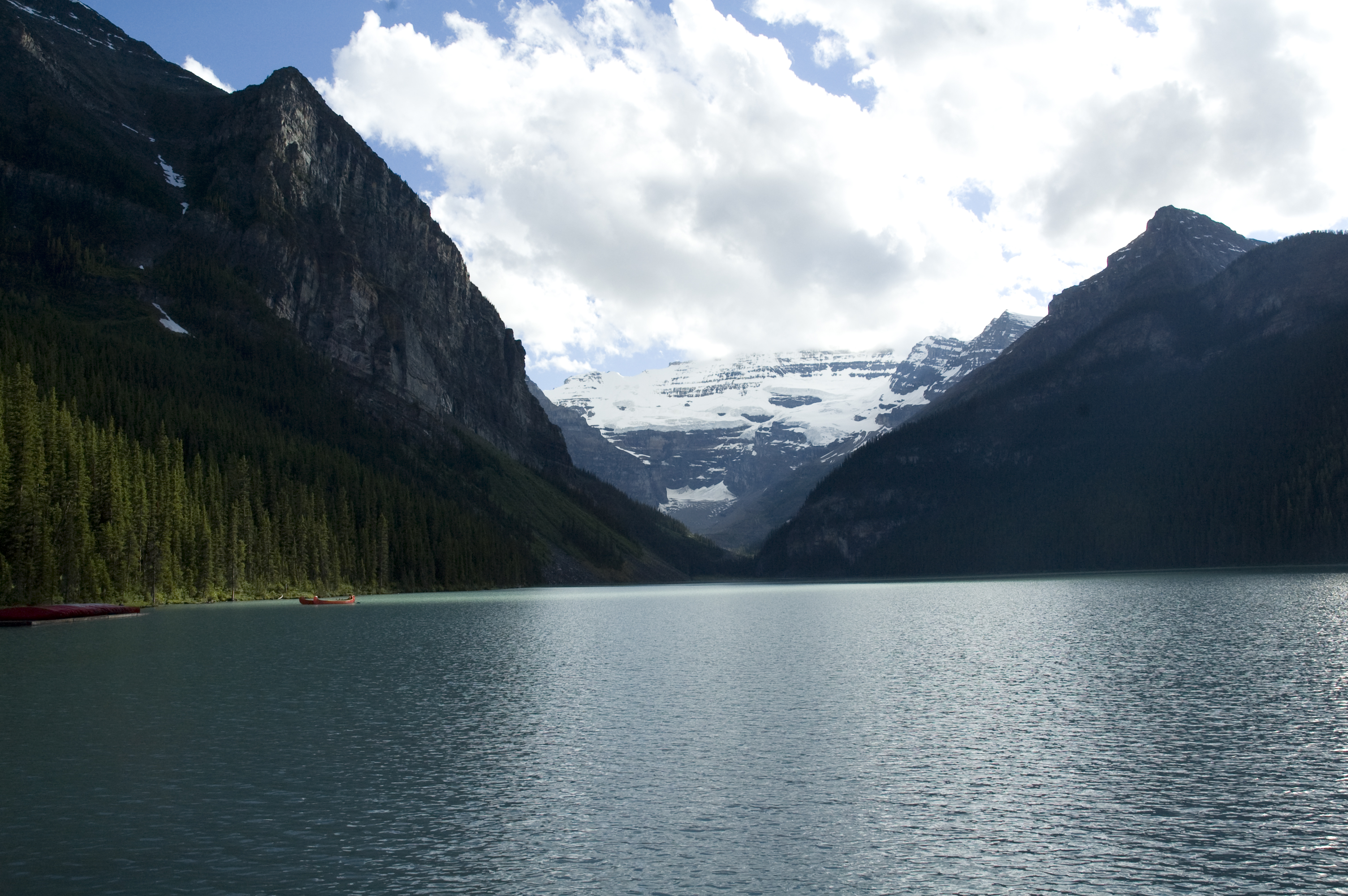 Picture of Lake Louise on a partly cloudy day in July, 2010.